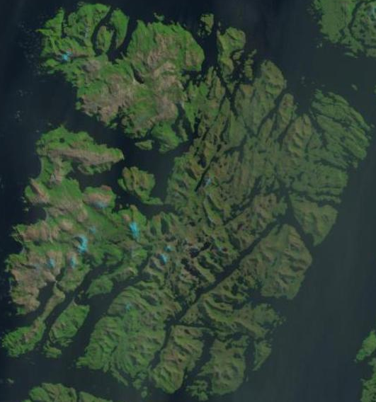 Satellite image of the Madre de Dios island in southern Chile.